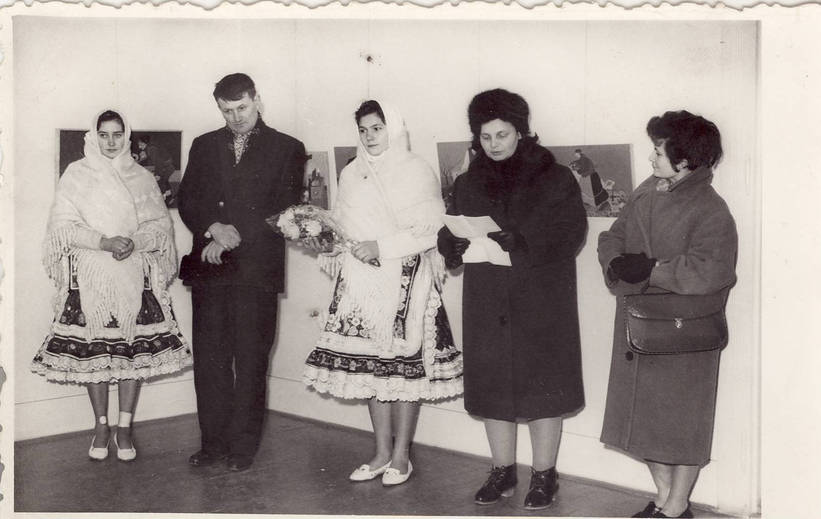 A photograph of painter Martin Jonaš during exibition in Museum of Vojvodinian Slovaks, 3 March 1963. Inventory number 1677. Srpski (latinica): Fotografija slikara Martina Jonaša na izložbi u Muzeju vojvođanskih Slovaka, 3. mart 1963. godine. Inventorski broj 1677.